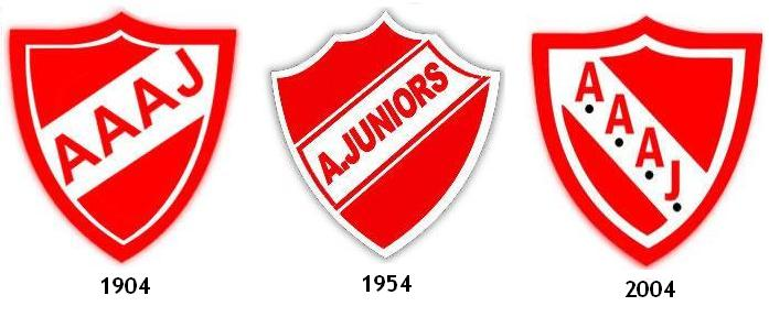 The evolution of the Asociación Atlética Argentinos Juniors emblem through the years.